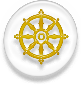 Symbol of Buddhism, white and golden version.